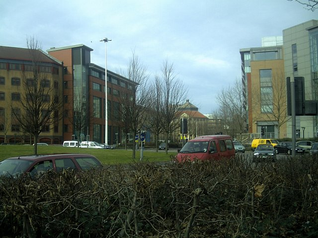 Bristol Broadmead